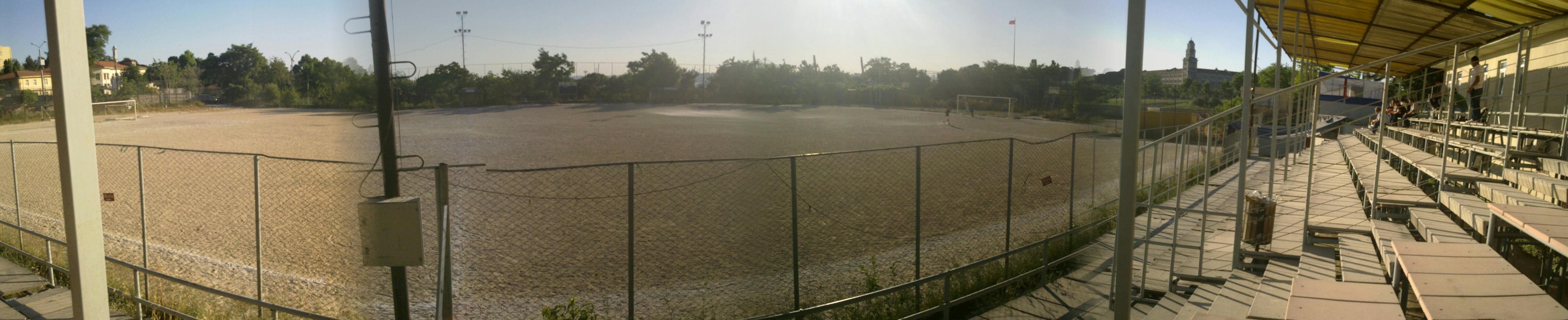 Panoramic of Haydarpaşa Stadium.